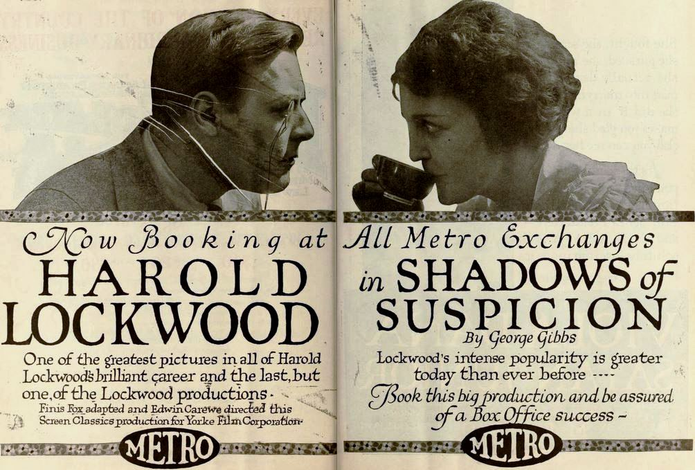 Advertisement for the American film Shadows of Suspicion (1919) with Harold Lockwood and Naomi Childers, on pages 1280 and 1281 of the March 8, 1919 Moving Picture World. Lockwood died during the production of the film in 1918 during the Spanish influenza epidemic, and some scenes were completed using a double shot from behind. The ad is damaged from some creases in the paper during printing of the magazine.